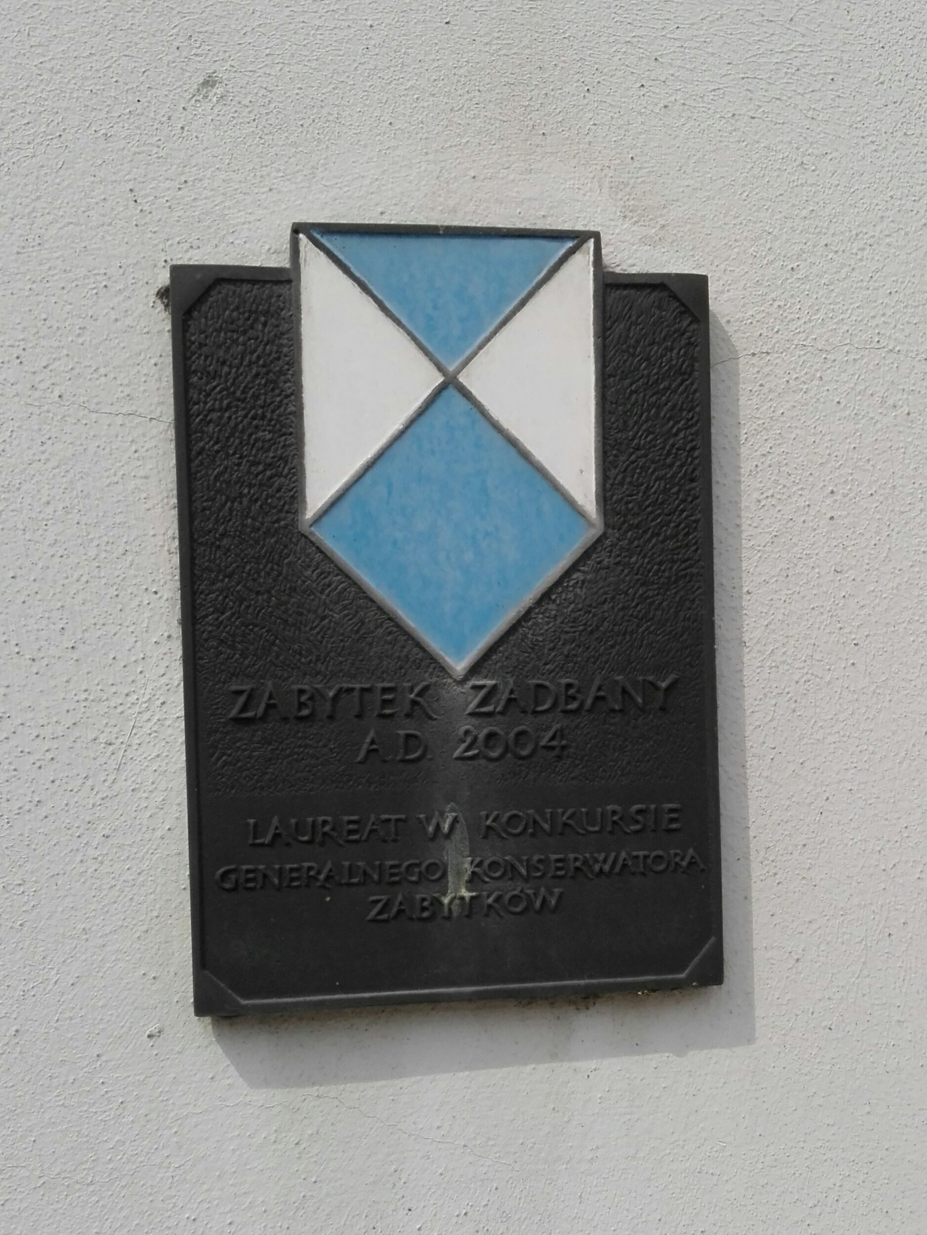 Prudnik Town Hall 10.1958.